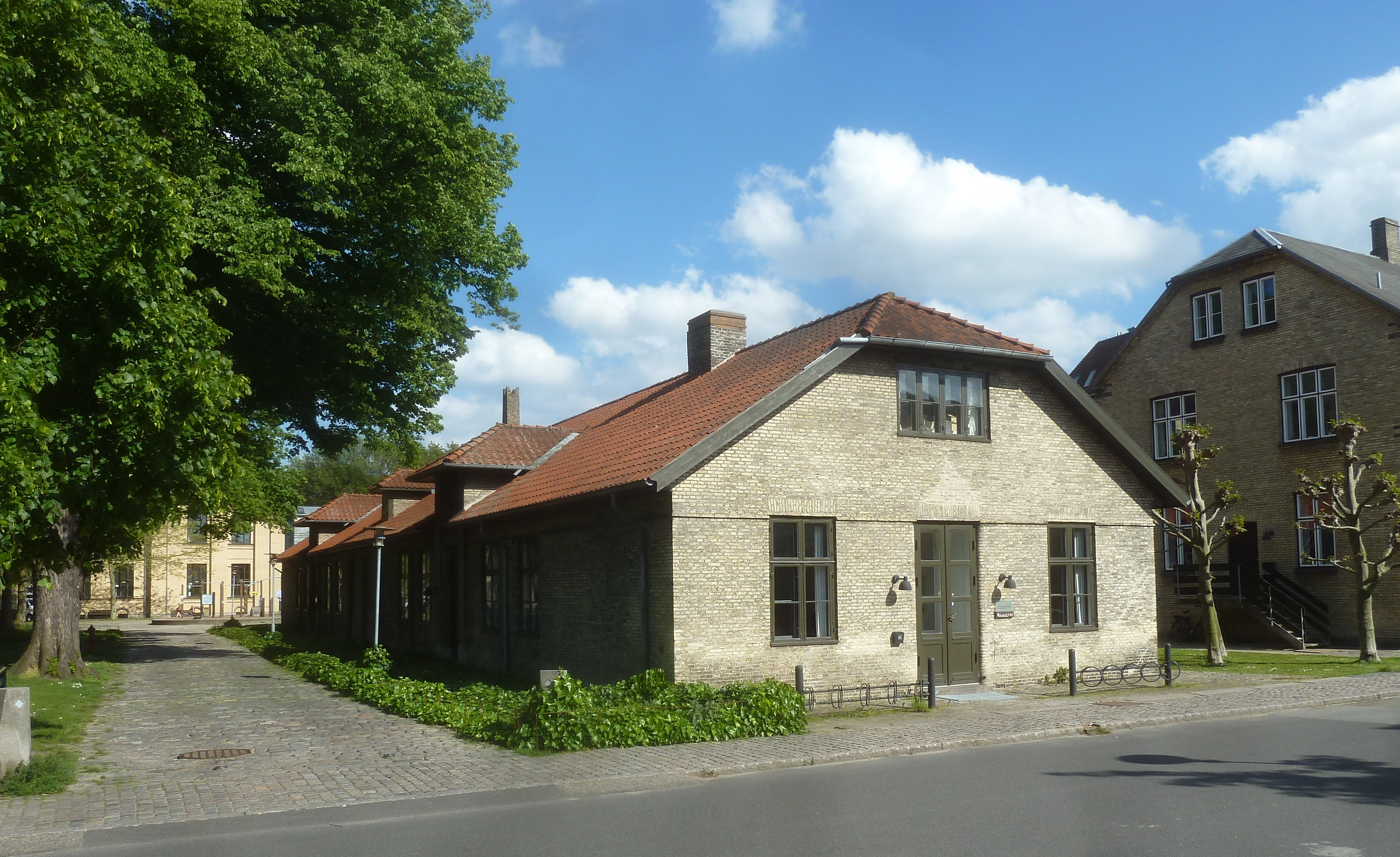 Grønnegårdsvej 8, part of University of Copenhagen's Frederiksberg Campus in Copenhagen, Denmark